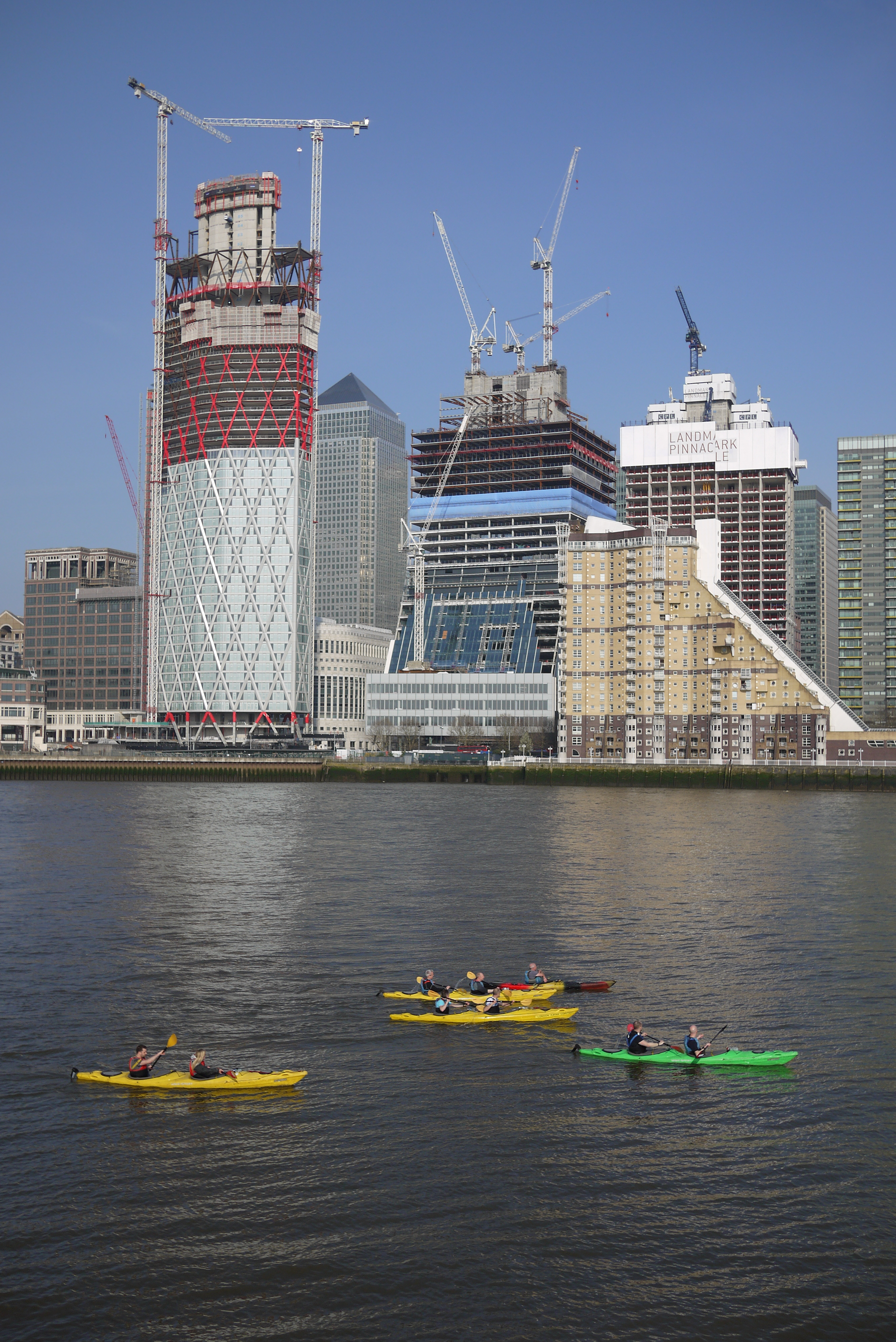 Kayakers in front of Canary Wharf